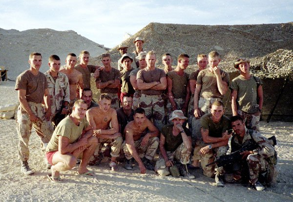 Members of 1st Platoon, India Company, 3rd Battalion, 3rd Marines during the Desert Shield-Desert Storm deployment in 1990-1991.